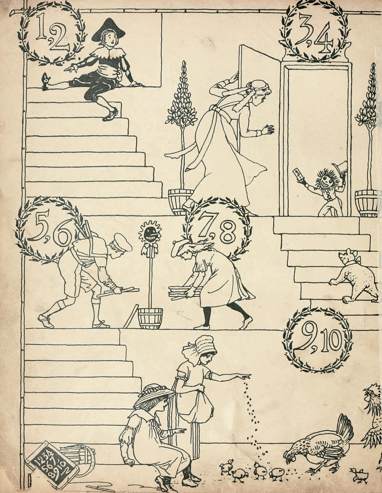 An endpaper by Walter Crane published in 1869. This section is a composite of the first five lines of the nursery rhyme "One Two, Buckle My Shoe"